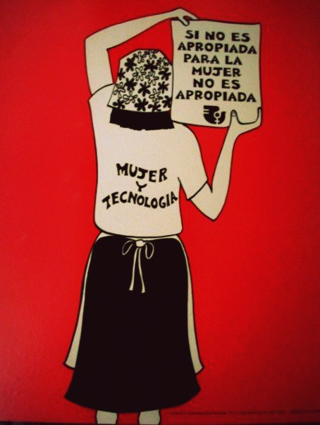 The poster reads: If it is not appropriate for women, it is not appropriate. Women and technology. (Si no es apropriada para mujers, no es apropriada. Mujer e technologia.) Photographer of the poster states: Esto lo vi un día hace muchos años en la Universidad del Valle, creo que en el Laboratorio de Radio de la Escuela de Comunicación Social. (I saw this one day many years ago at the University of the Valley, I think in the Radio Laboratory of the School of Social Communication ...). Colombia.